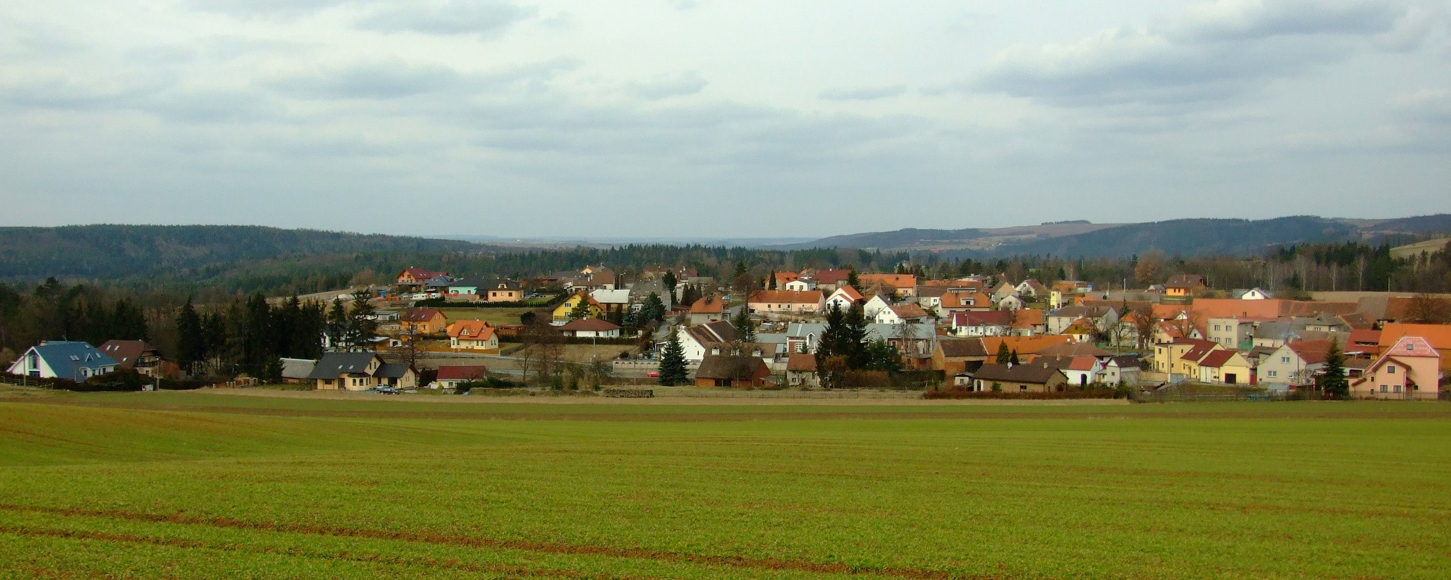 Town Smědčice and surrounding nature in Plzeň region, CZhelp